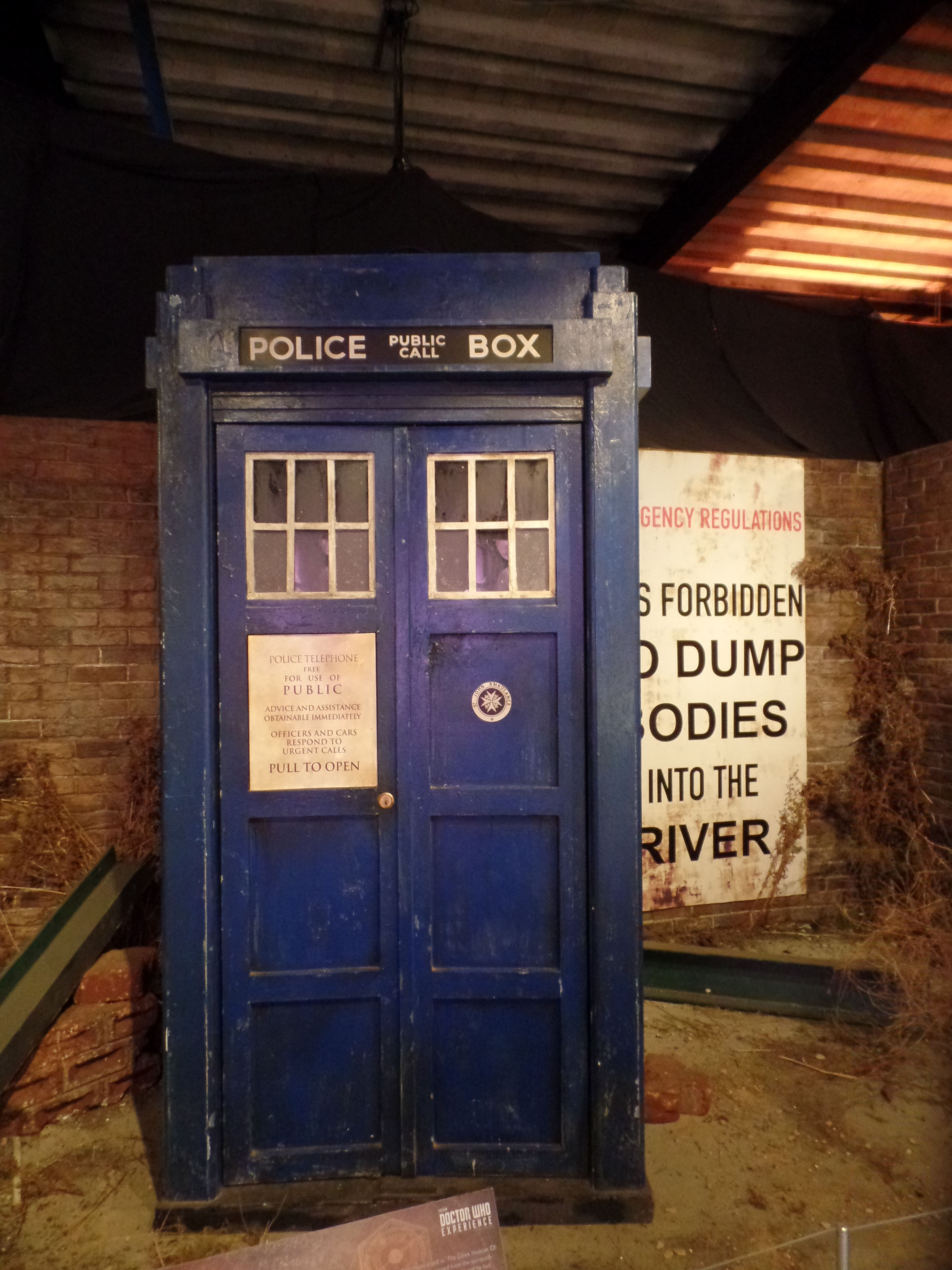 SAMSUNG CAMERA PICTURES Doctor Who Experience